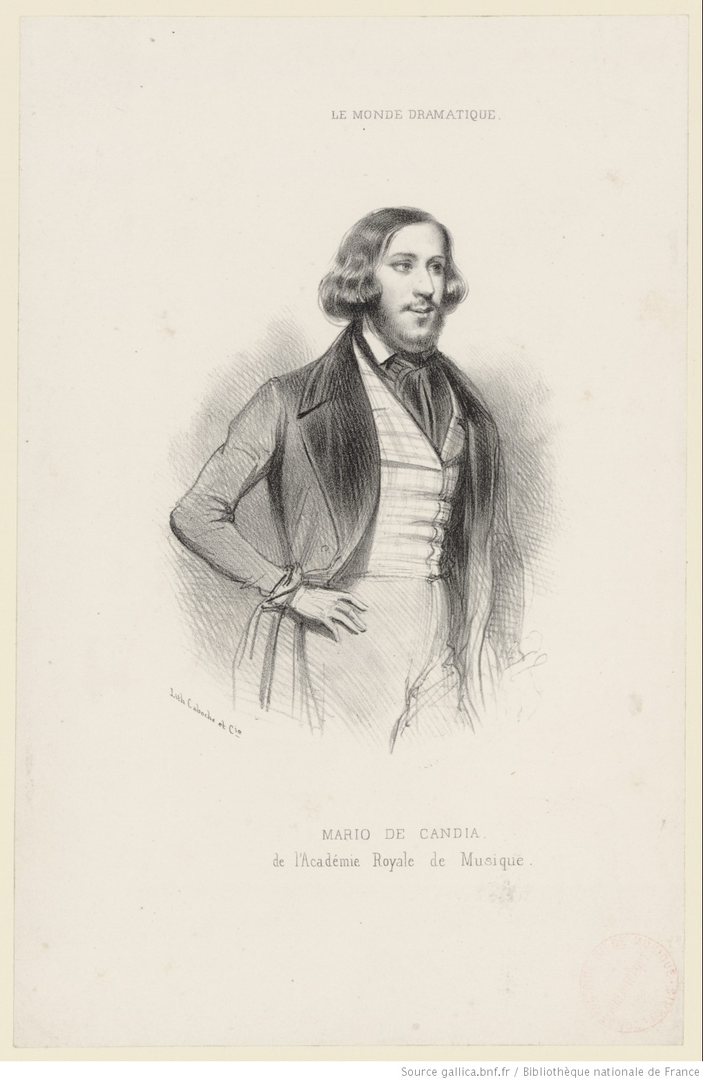 Mario de Candia-1843